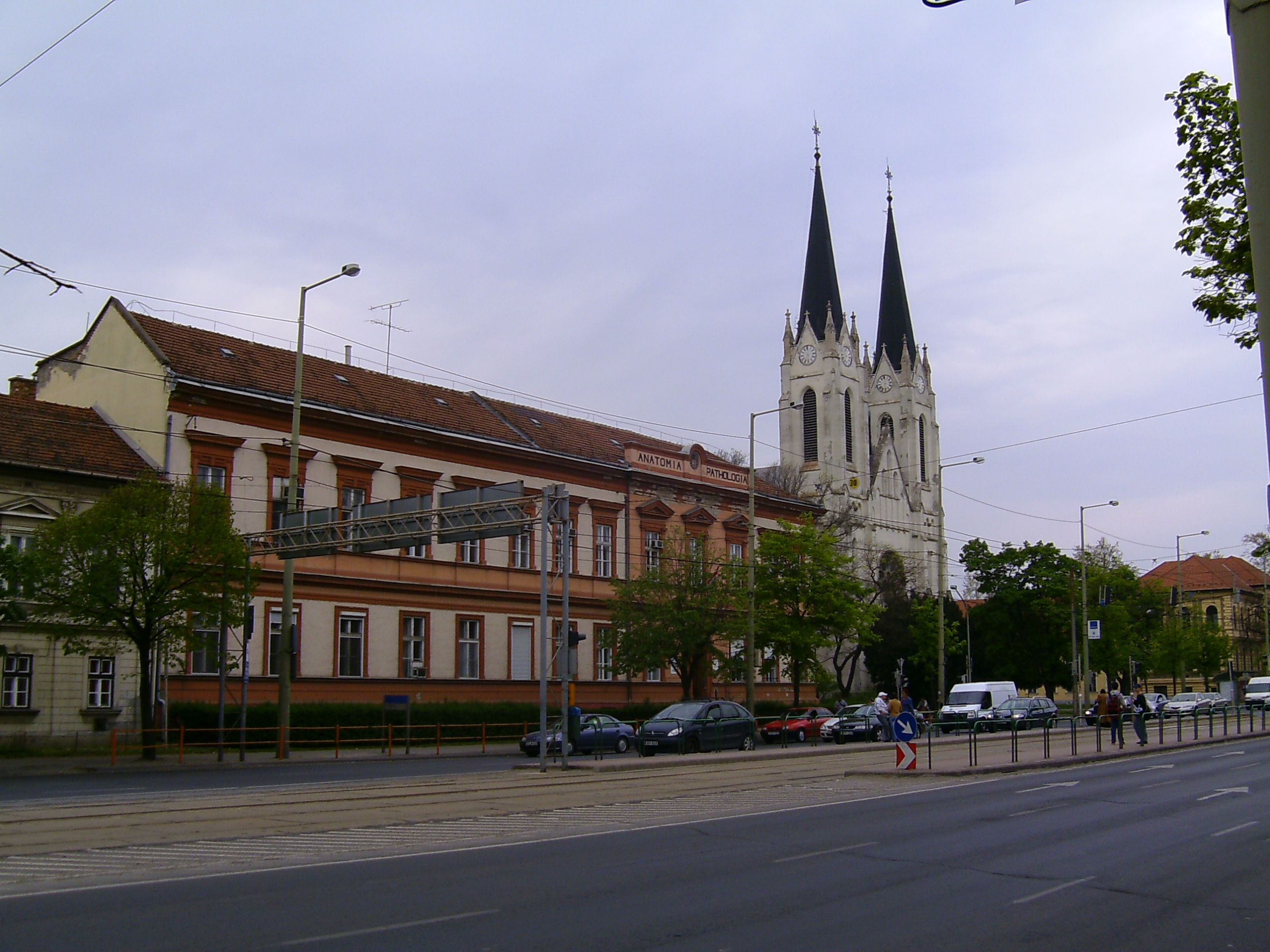 St. Roch church building and Department of Anathomy (SZTE), Szeged